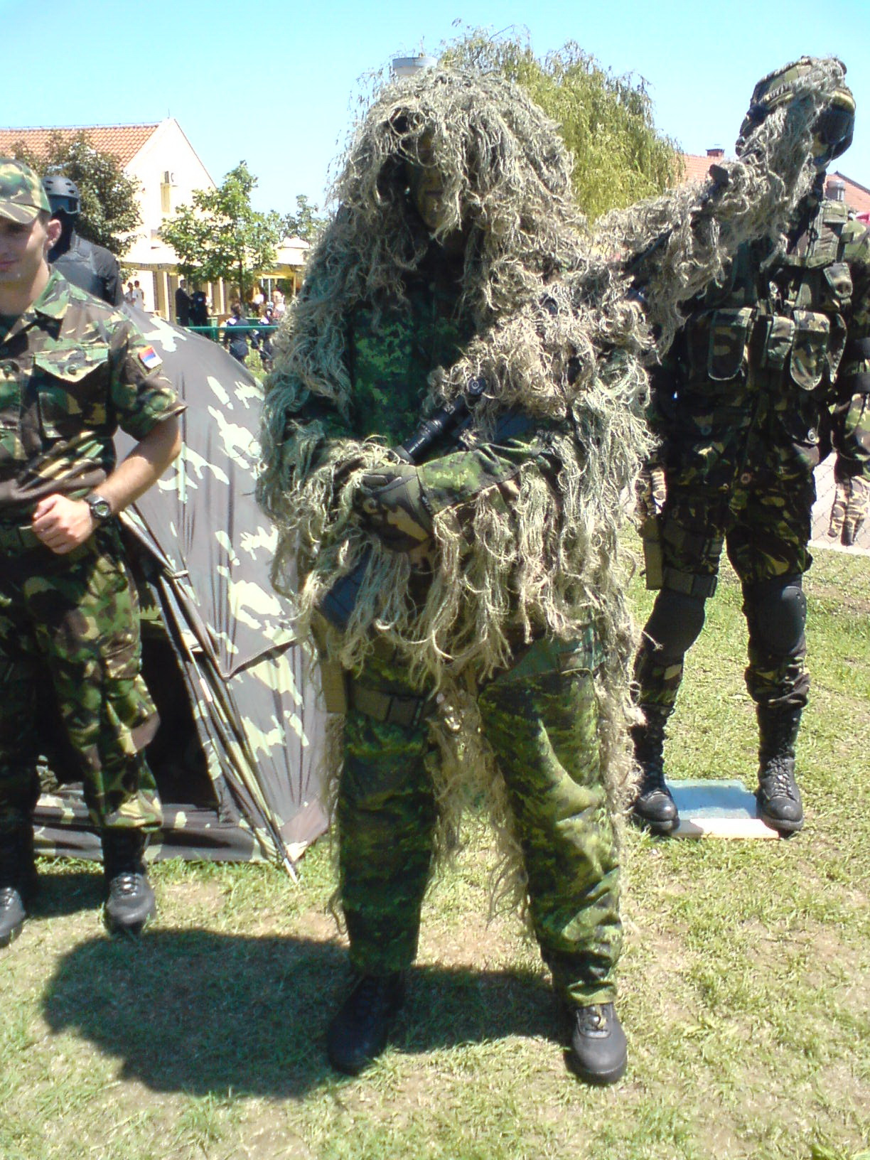 SAJ ghillie suit